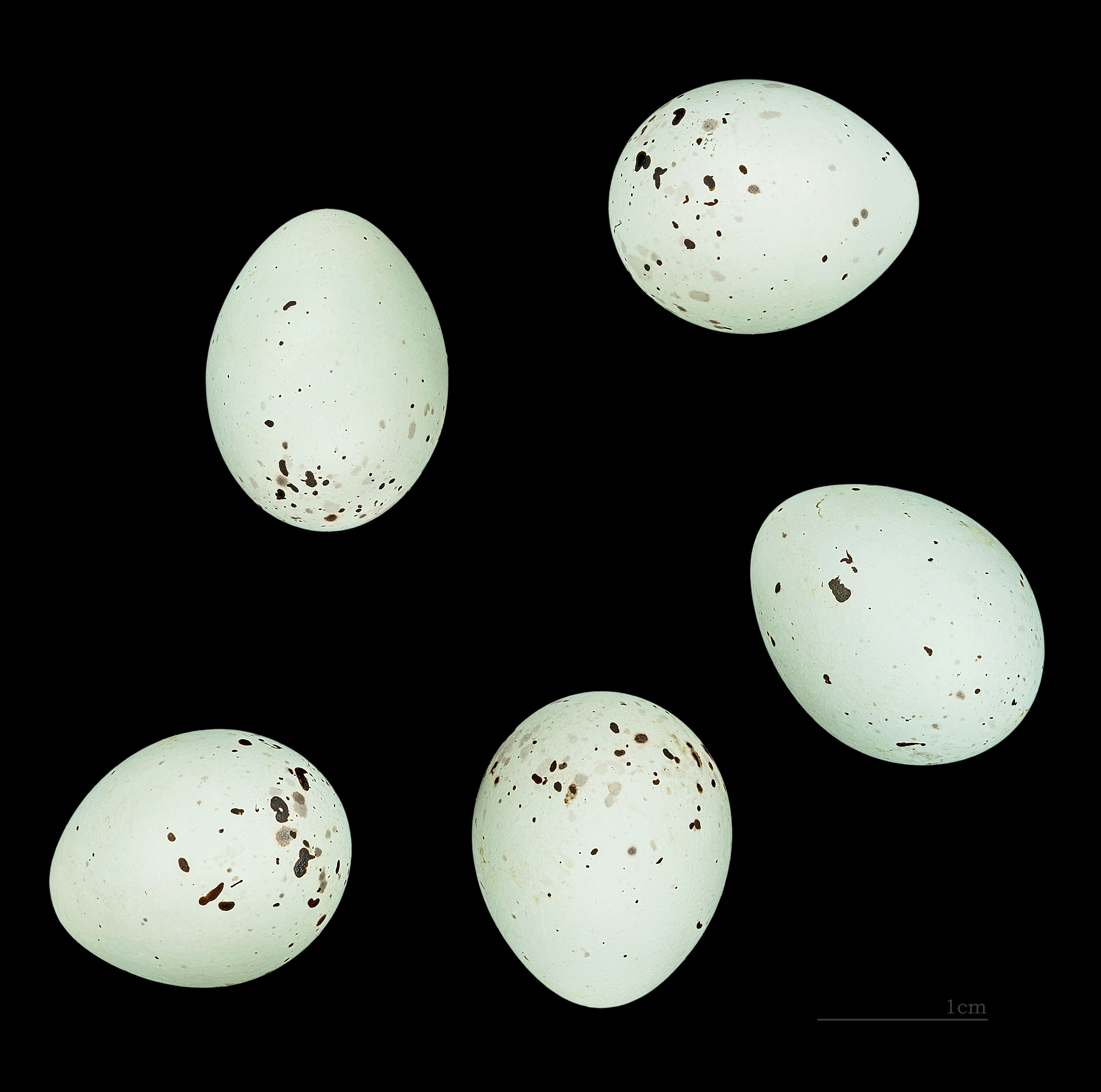 Egg of Eurasian Bullfinch. Collection of Jacques Perrin de Brichambaut.